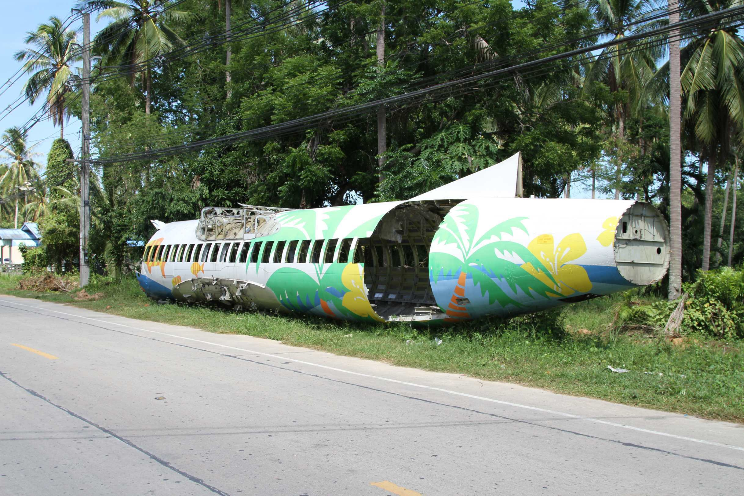 Sitting on the side of the road ATR72 Koh Samui Thailand